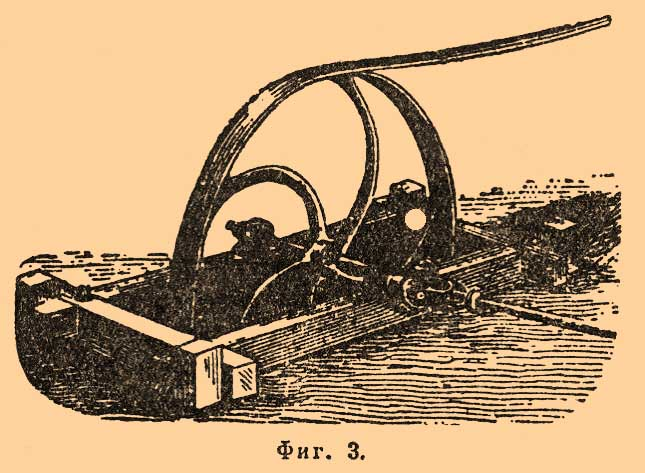 Illustration from Brockhaus and Efron Encyclopedic Dictionary (1890—1907)